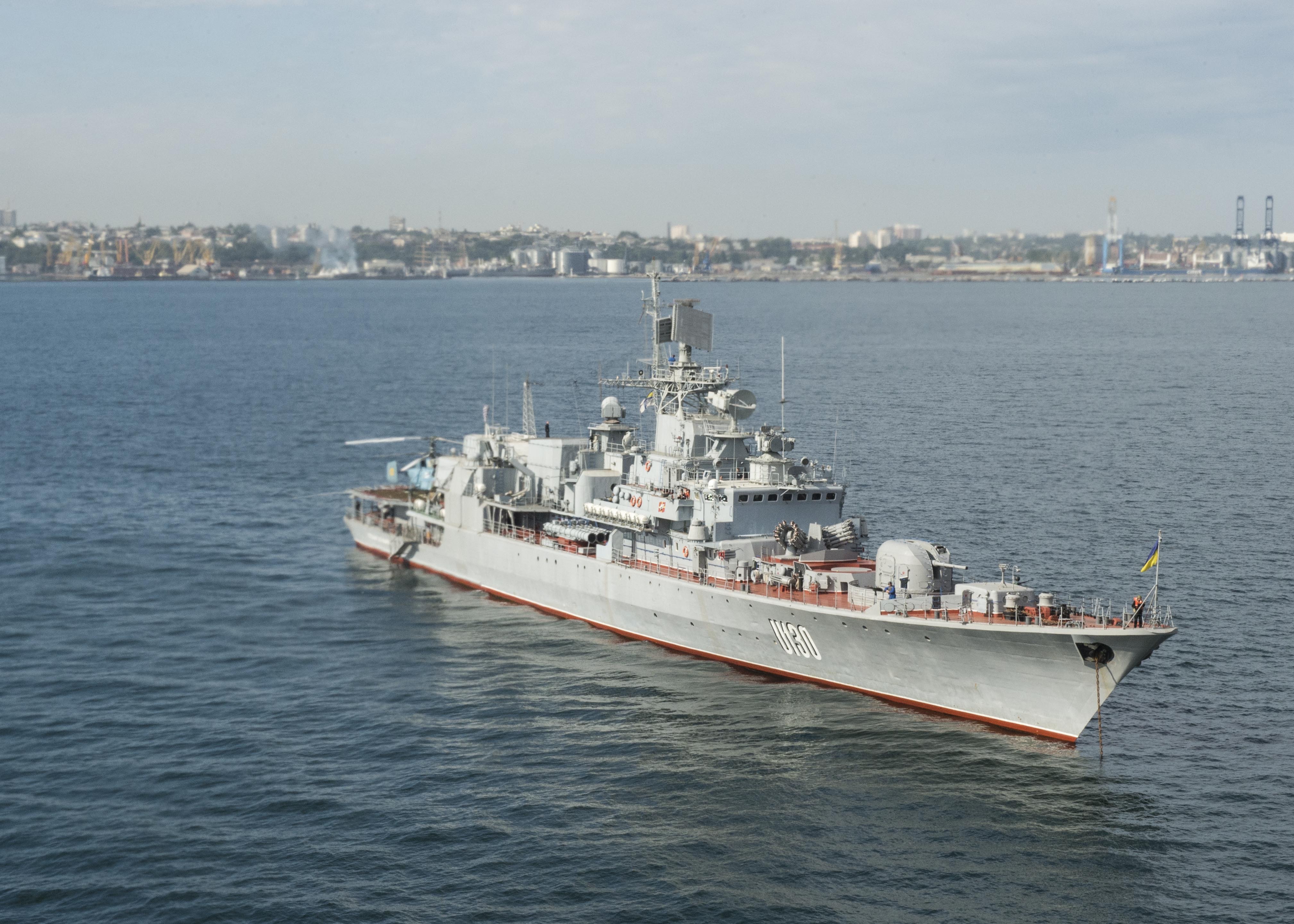 150808-N-FQ994-136 BLACK SEA (Sept. 8, 2015) Ukrainian navy Saradichny (U-130) transits the Black Sea during exercise Sea Breeze 2015, Sept. 8. Sea Breeze is an air, land and maritime exercise designed to improve maritime safety, security and stability in the Black Sea. (U.S. Navy photo by Mass Communication Specialist 3rd Class Robert S. Price/Released).